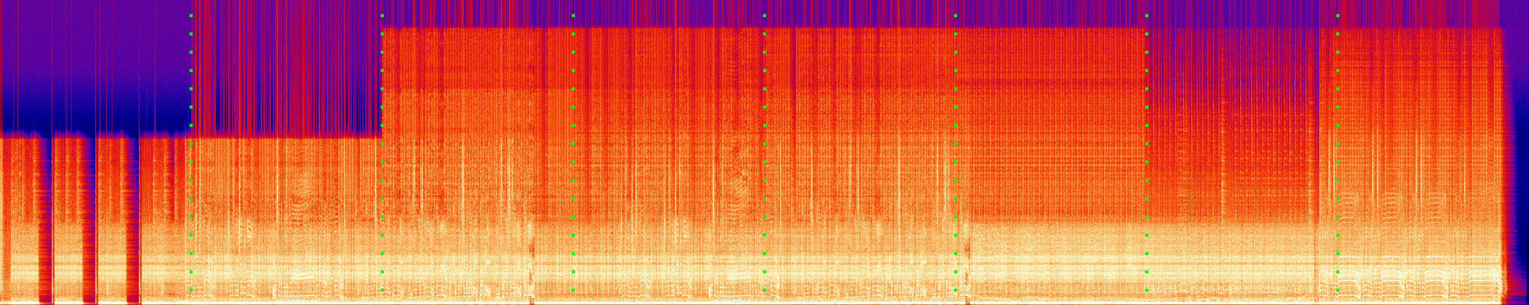 Spectrogram showing compression artefacts from lossy Opus encoding (encoder: exp_analysis7-20120823) at different average bitrates from 31.8 to 158 kbit/s in a recording of Jono Bacon's Metal version2 of the Free Software Song)